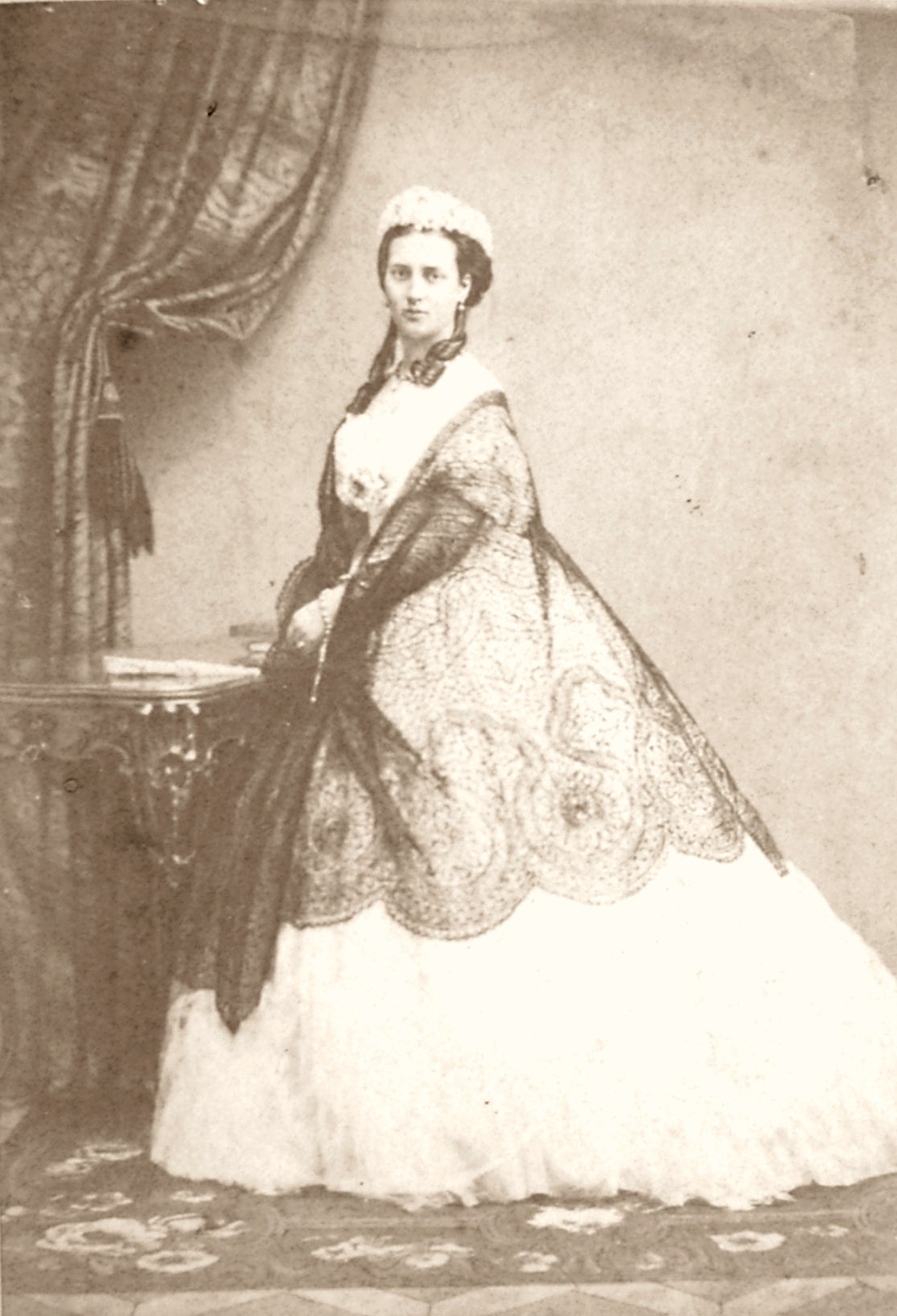 Alexandra, Princess of Denmark